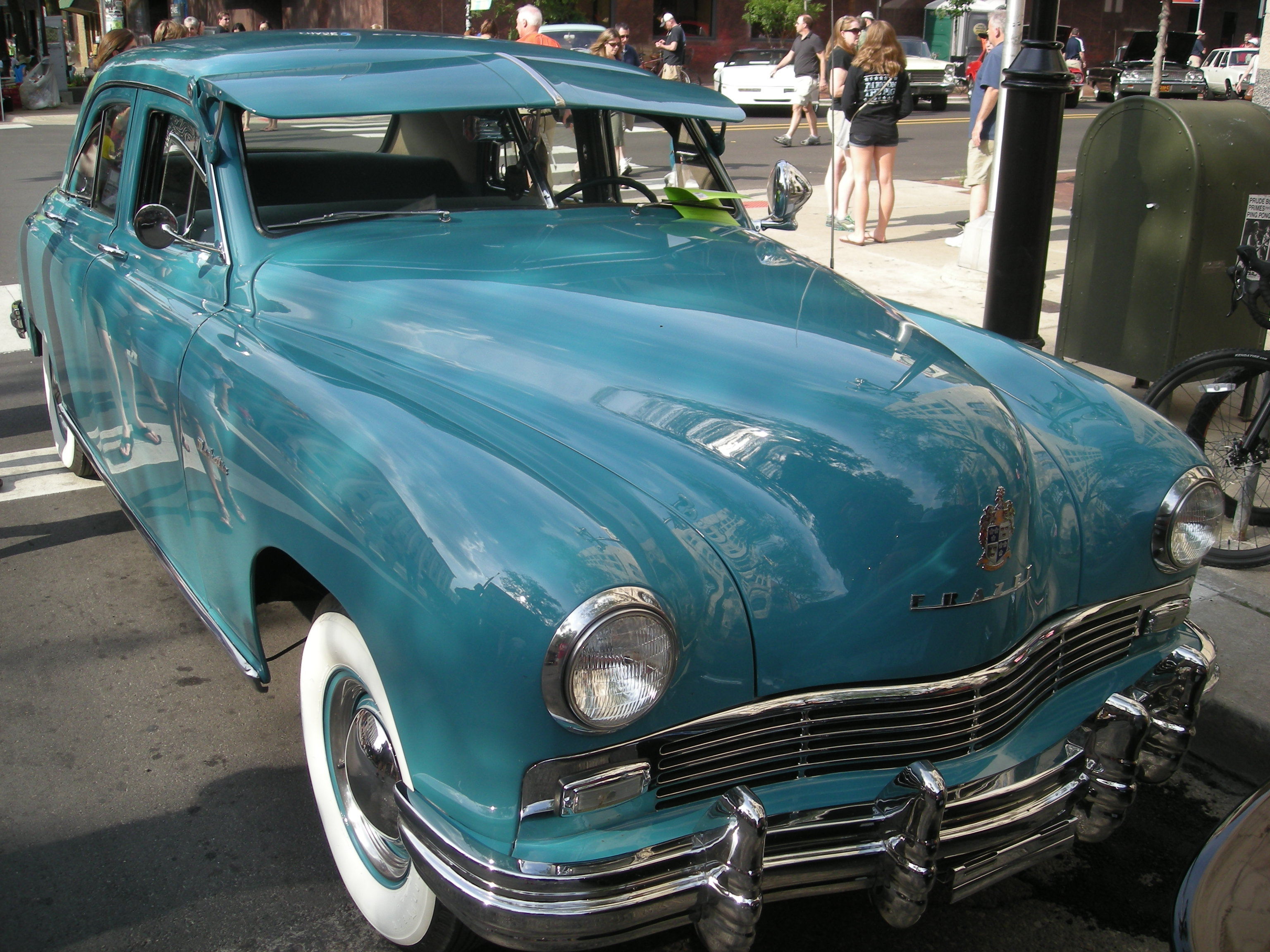 A 1948 Frazer Manhattan at the 2014 Rolling Sculpture Car Show in Ann Arbor, Michigan (United States).